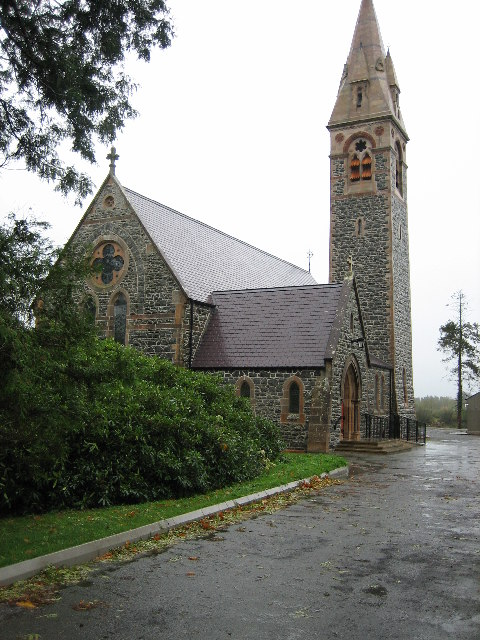 Kilmore Parish Church. This modern basalt Church of Ireland Parish Church replaces that which has been accurately reconstructed in the Ulster Folk and Transport Museum at Cultra.